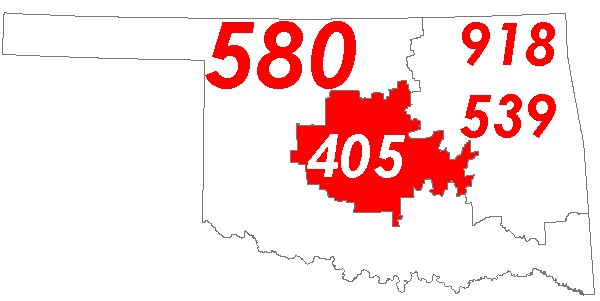 Area code location for 405